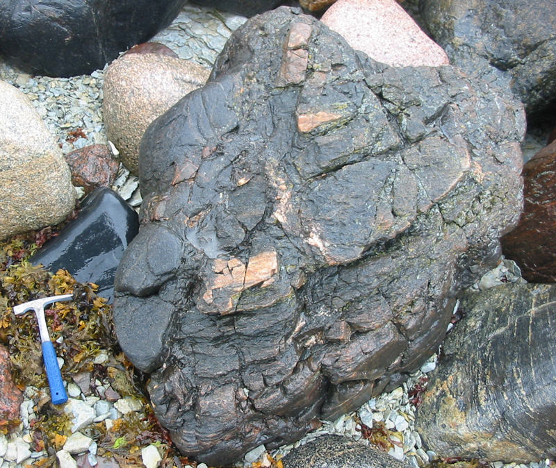 Breccia (Neugrundbreccia), composed mainly of gneiss and amphibolite is a result of meteorite impact 540 million years ago. Impact structure is few kilometers from Estonian coast.